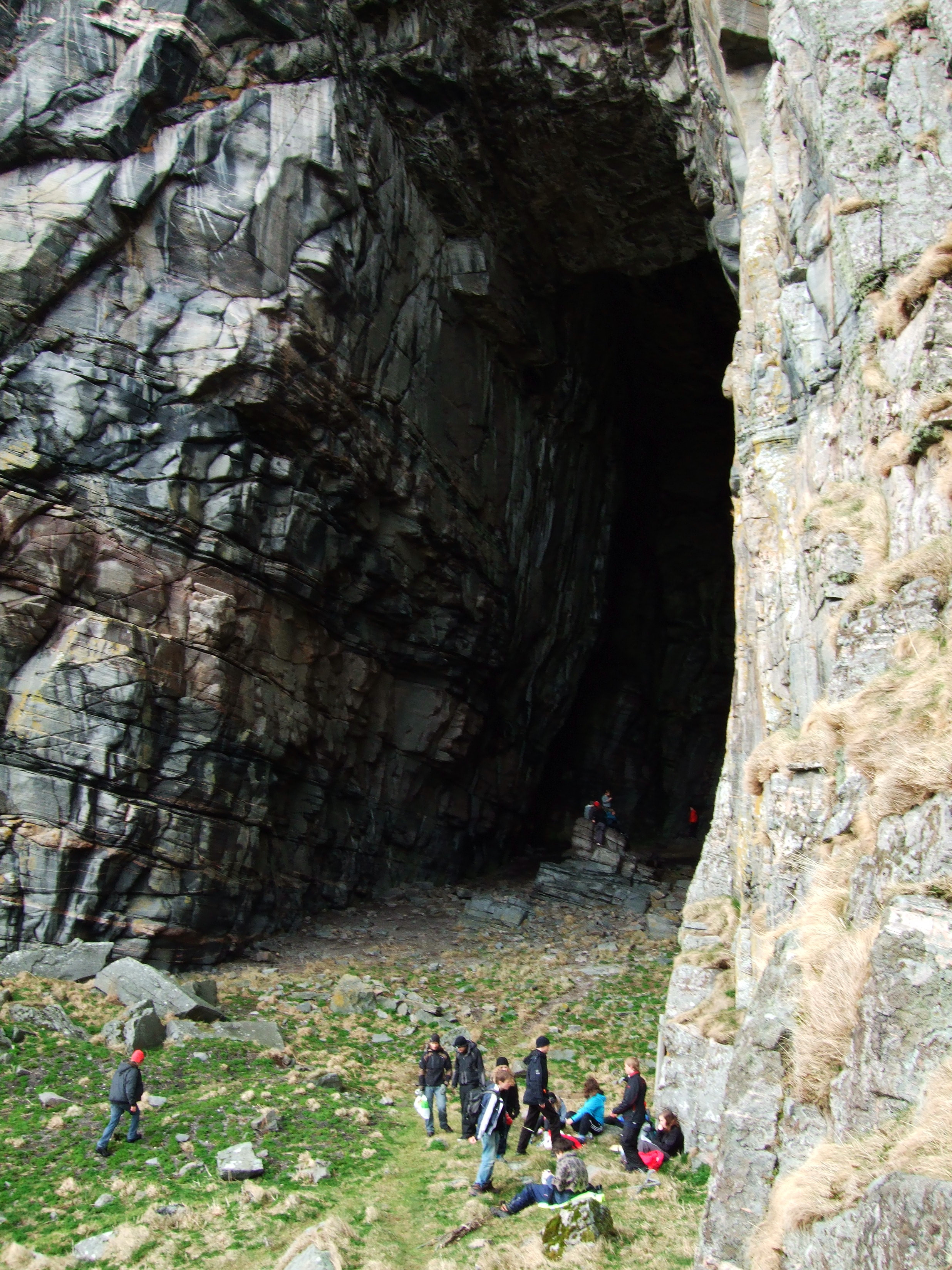 The cave "Kirkhelleren" (Stone Cathedral) at Sanna island, Træna, Norway. Artifacts from stone age people have been found in this cave.